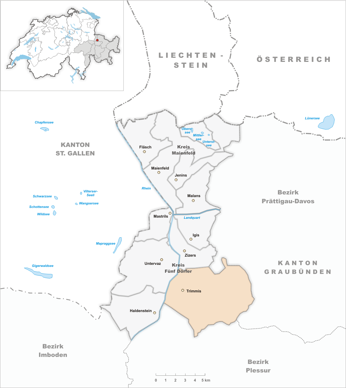 Municipality Trimmis to 2008